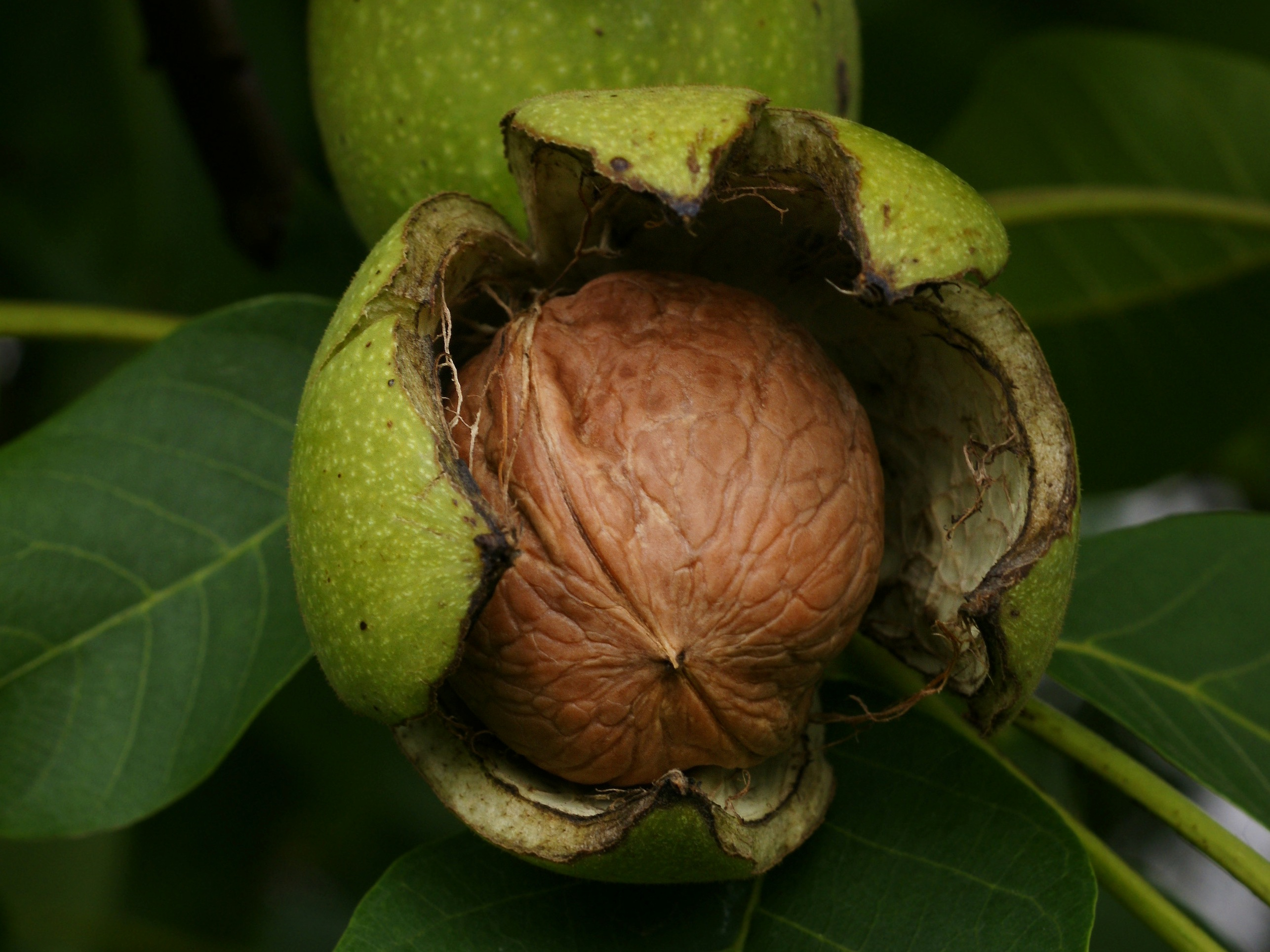 Juglans regia (the Common walnut or Persian walnut), is the original walnut tree of the Old World.